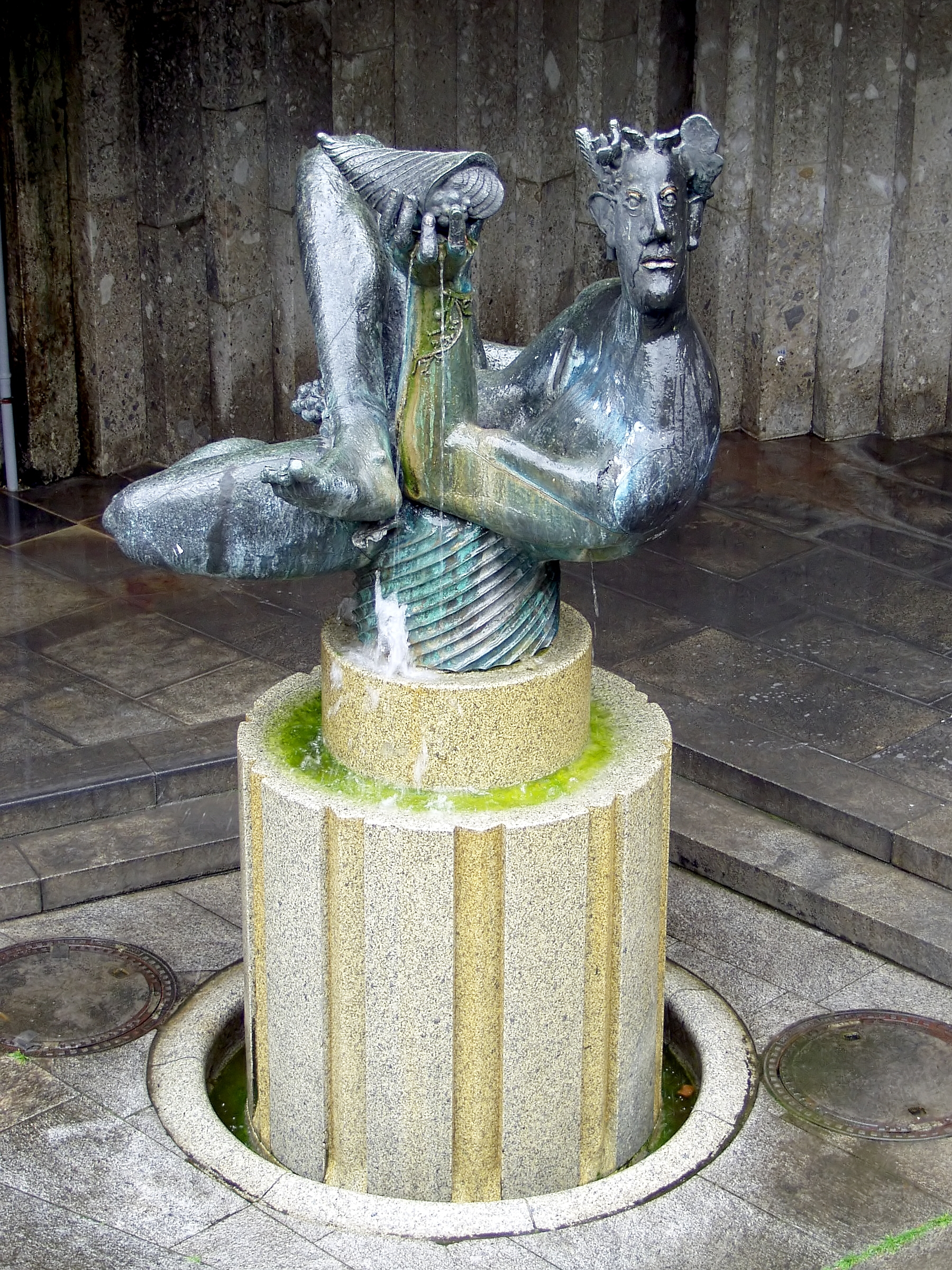 Dionysos fountain near the chorus of Cologne Cathedral. Sculptor: Hans Karl Burgeff